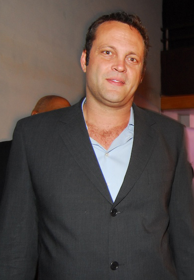 Vince Vaughn in Knoxville, Tennessee.